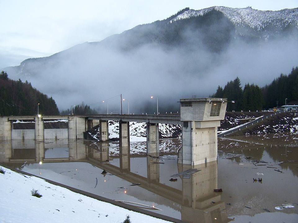 View of Howard A. Hanson Dam during historic pool January 8, 2009. Image shows spillway gates on left, intake center.